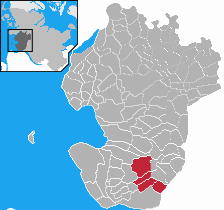 This map shows the area of the Amt Eddelak-Sankt Michaelisdonn in the district Dithmarschen, Schleswig-Holstein, Germany.